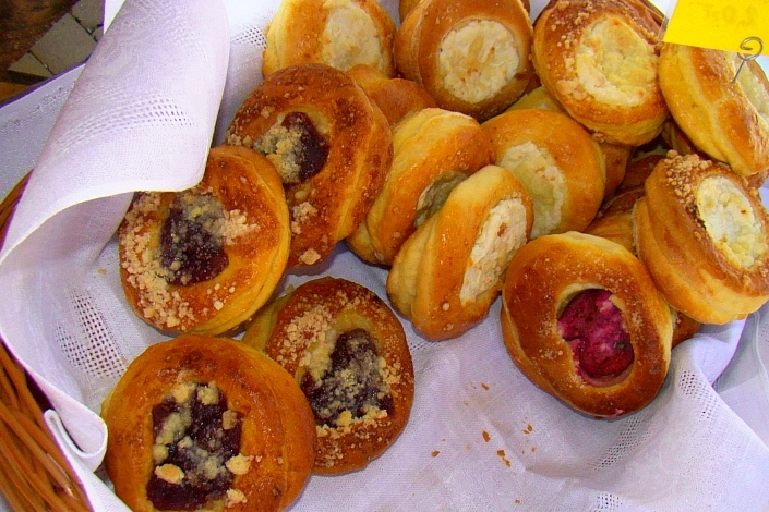 Cuisine of Subcarpathia - Danish (pastry)